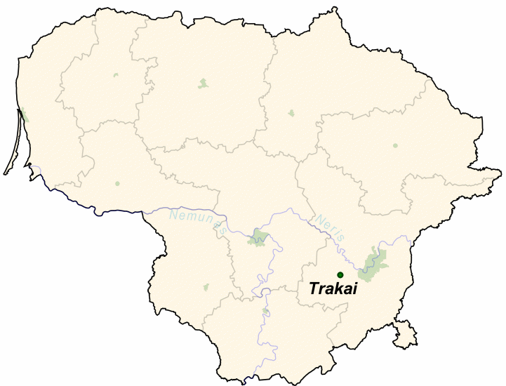 Trakai on the map of Lithuania